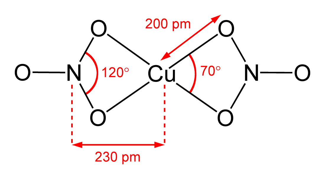 Approximate dimensions of the copper(II) nitrate monomer, Cu(NO3)2, in the vapour phase